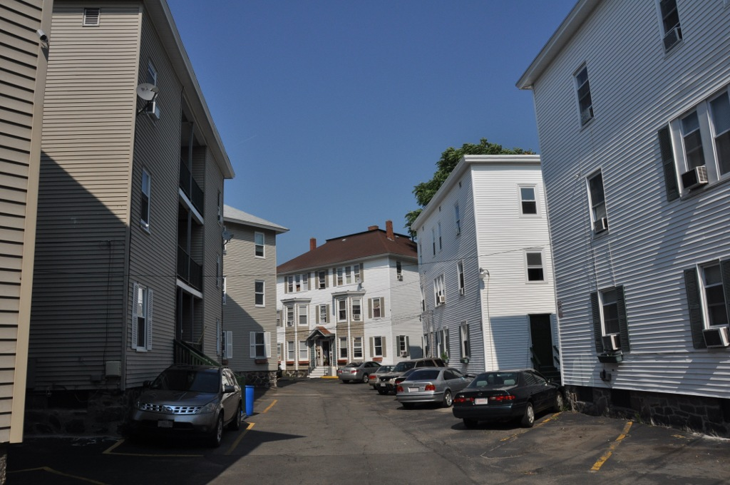 The central area of the American Woolen Mills Housing District in Lawrence, Massachusetts. One of the distinctive features of this district is the way the various buildings were laid out in an attempt to maximize housing density.